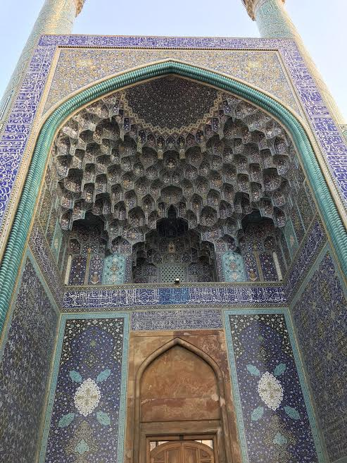 Daytime photograph of Islamic Calligraphy painted on Iwan of Shah Mosque. Isfahan, 9 October 2019. Photographed by Tandis Shojaei.